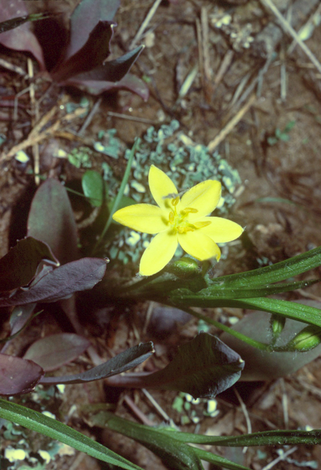 Hypoxis hirsuta (L.) Coville common goldstar